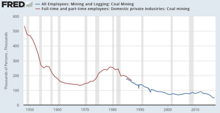 Chart of the number of employees in US mining and logging, 1950-2017